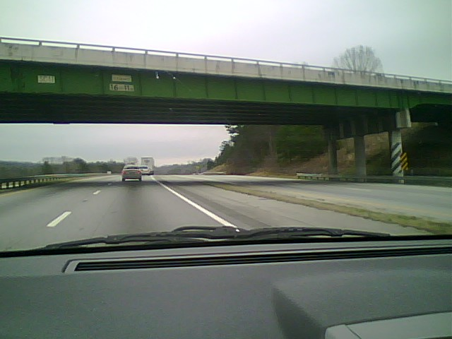 Interstate 85 in South Carolina going north.